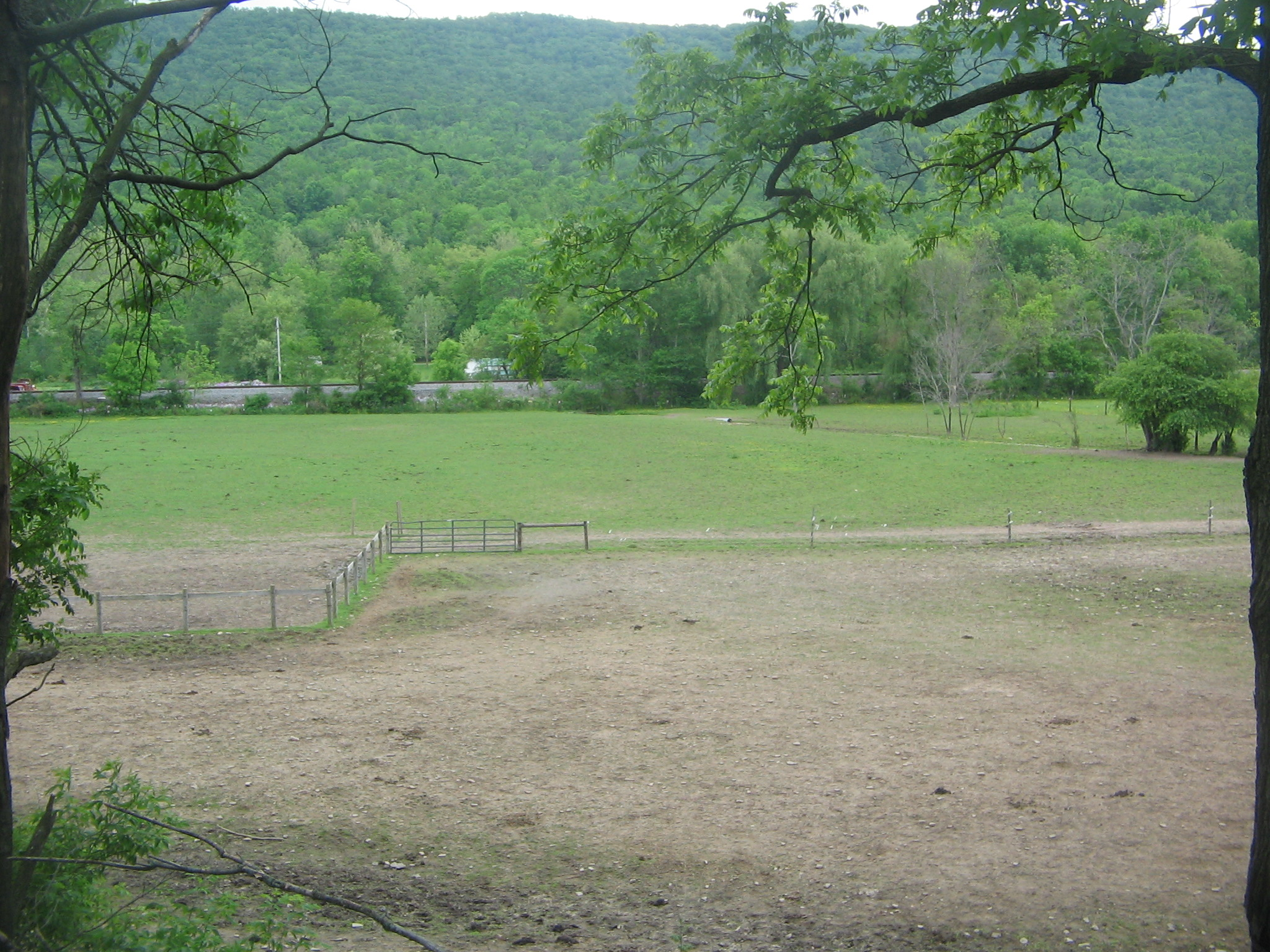 Fisher Farm Site in Unionville, Centre County, Pennsylvania, USA - an archeological site listed on the National Register of Historic Places